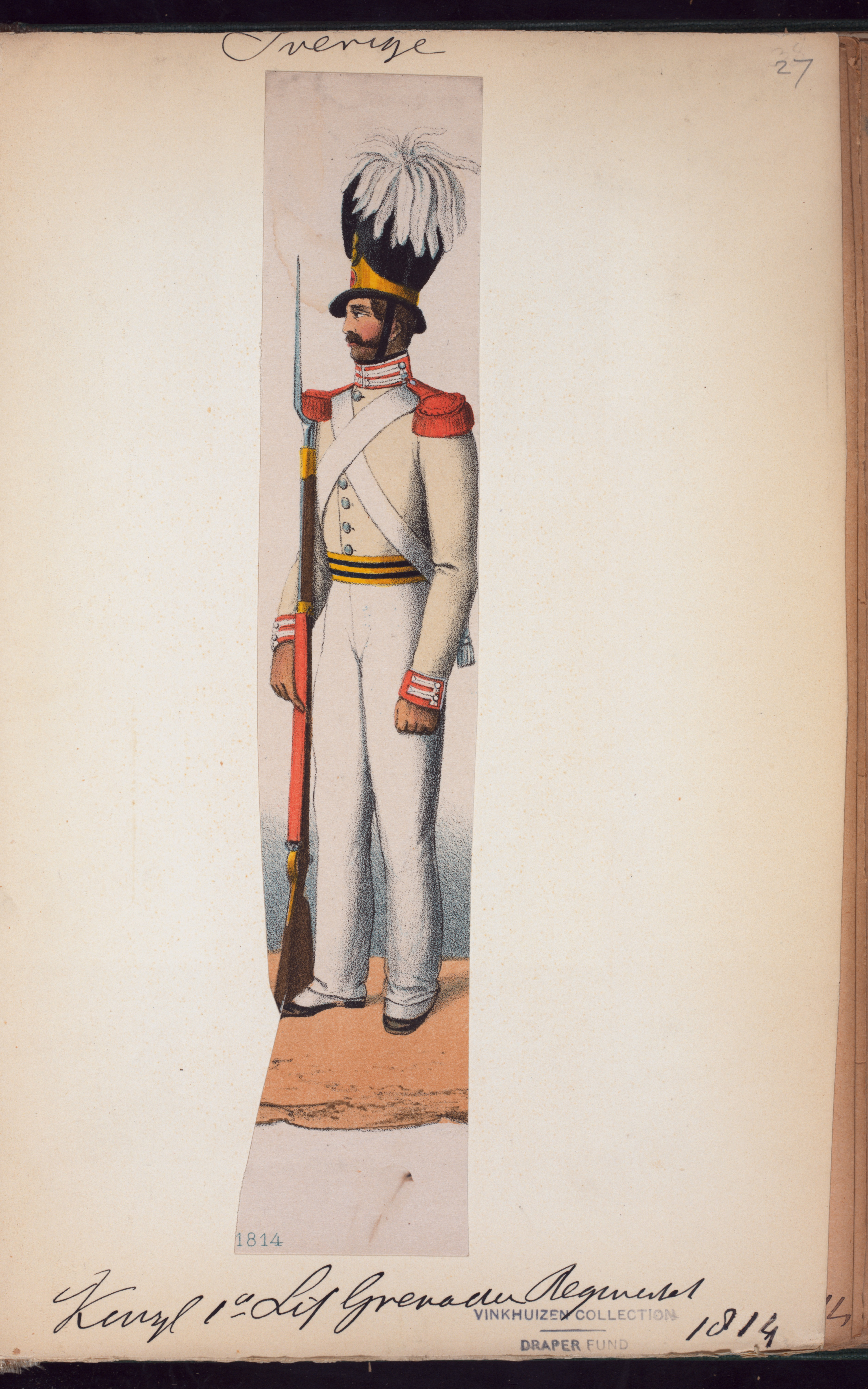 Norway and Sweden, 1814.